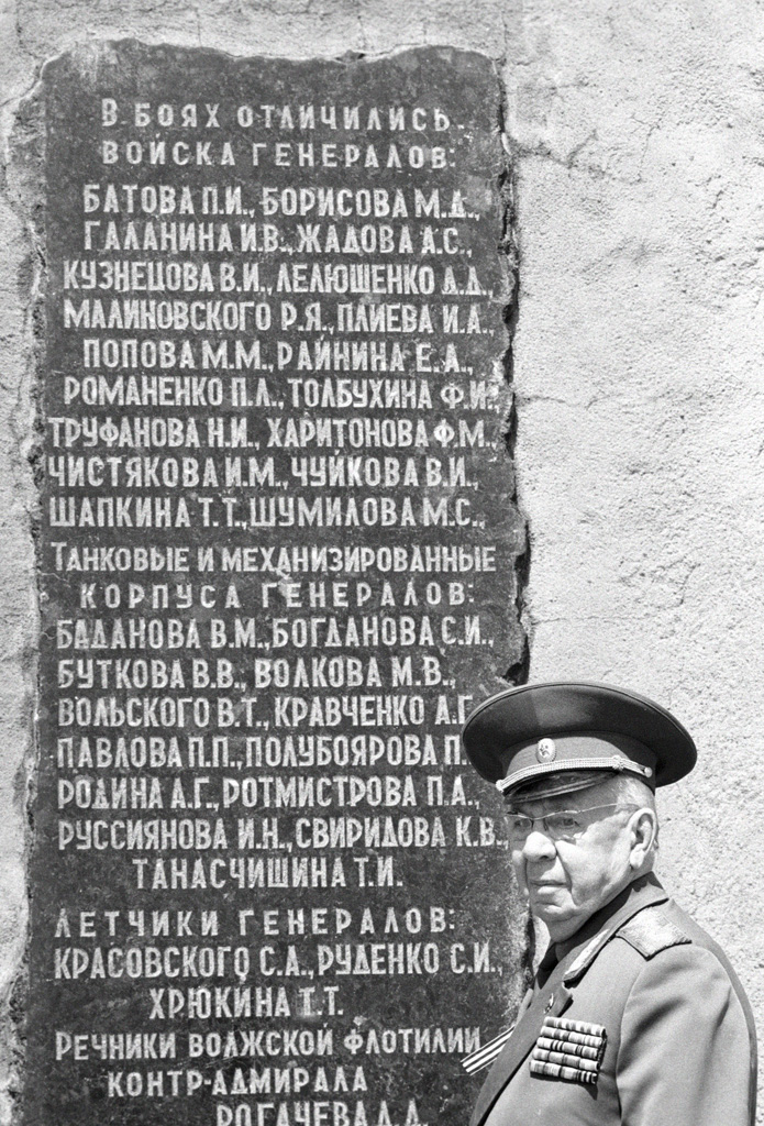 “General Borisov”. General Mikhail Borisov at the memorial plaque with his name. The plaque of the Mamayev Kurgan memorial complex bears the names of units and commanders that distinguished themselves in the Battle of Stalingrad.